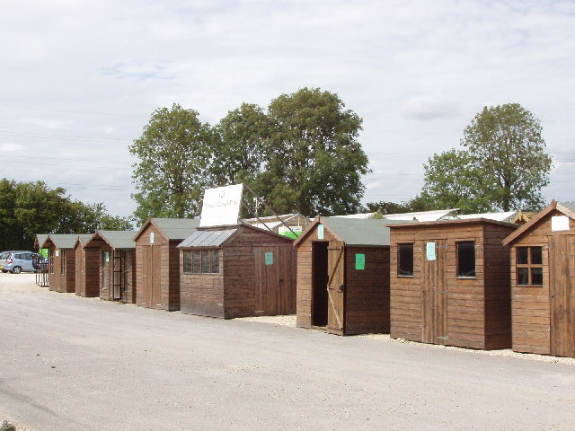 Garden sheds for sale, Chinnor. At the edge of Chinnor on the road to Thame